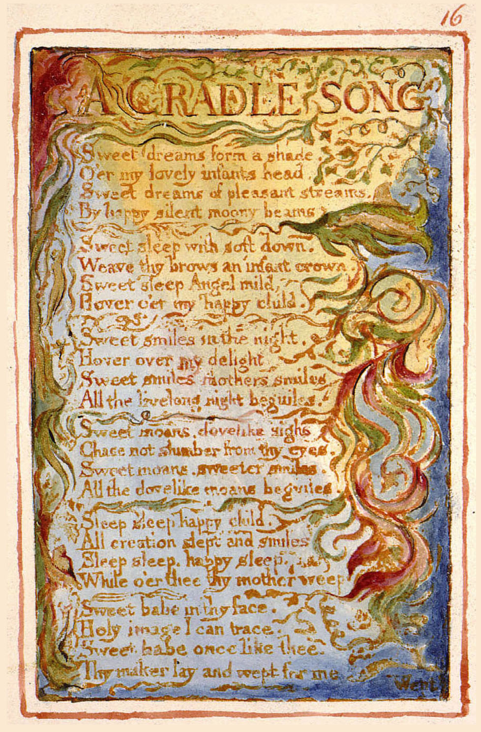 Songs of Innocence and of Experience, copy AA, 1826 (The Fitzwilliam Museum) object 16 A CRADLE SONG